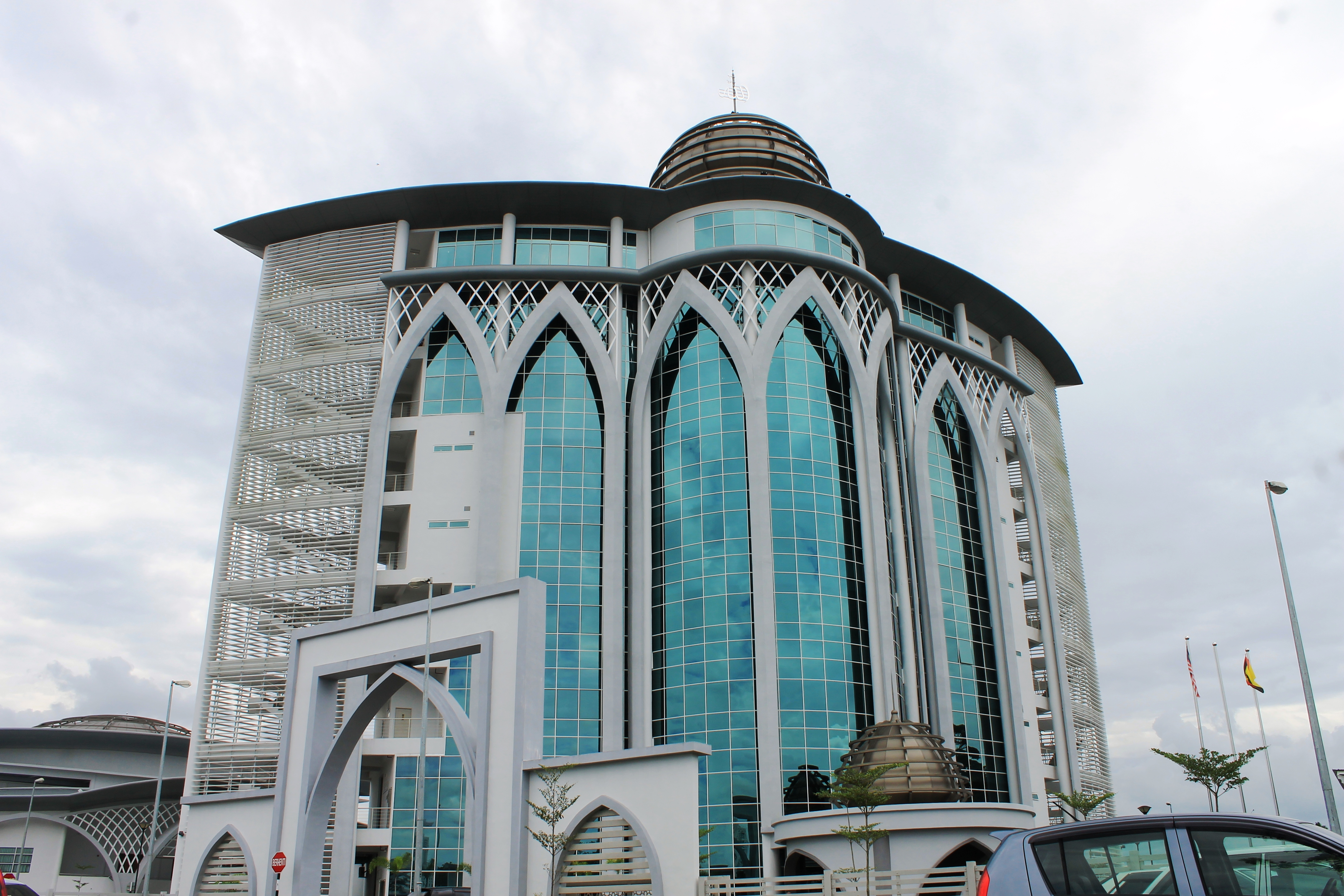 Sibu Islamic Complex, Sarawak, Malaysia.